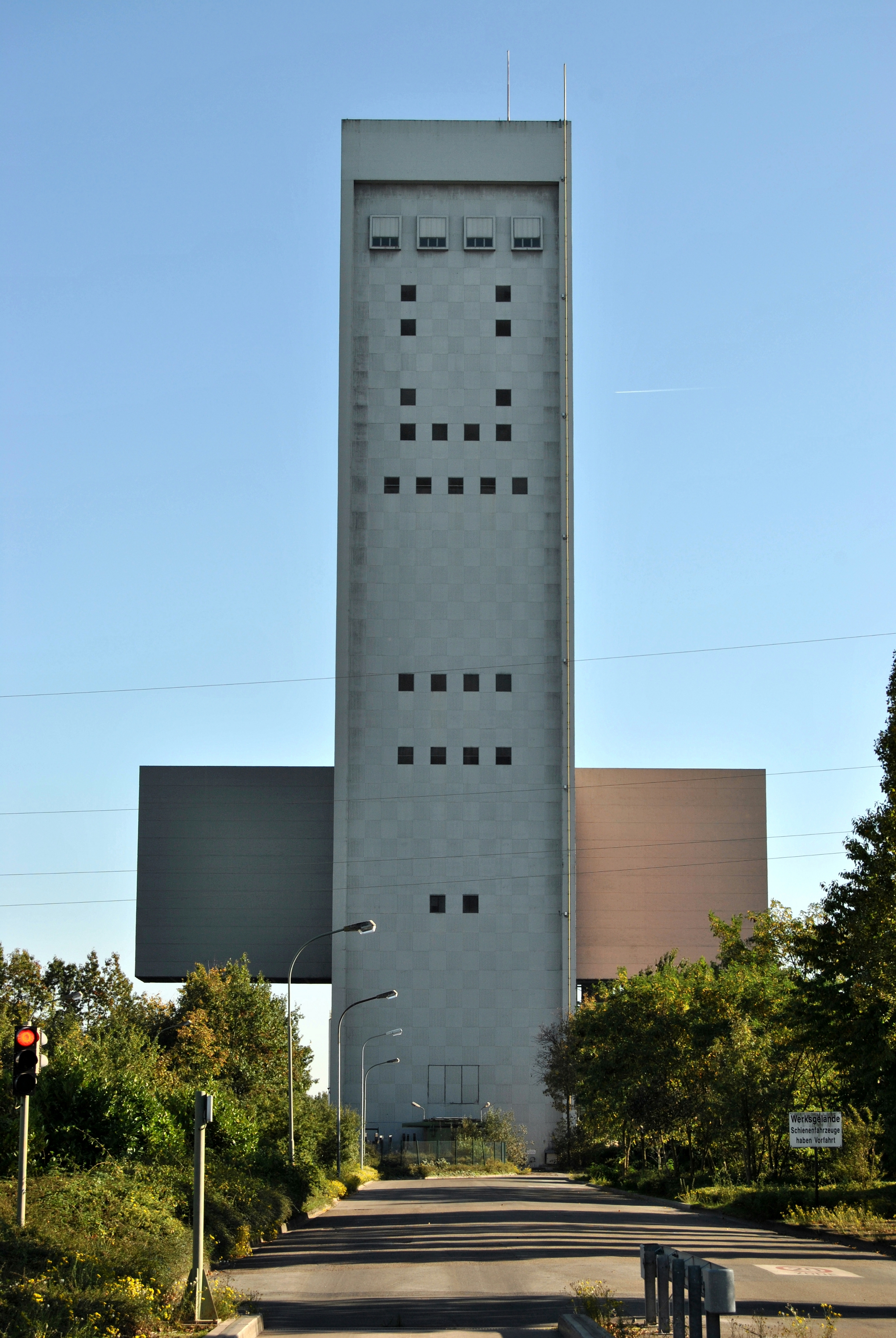 Kamp-Lintfort (North Rhine-Westphalia, Germany) – Rossenray Coal Mine – shaft 1 – winding tower (height: 75 m) This photograph was taken with a Nikon D3000